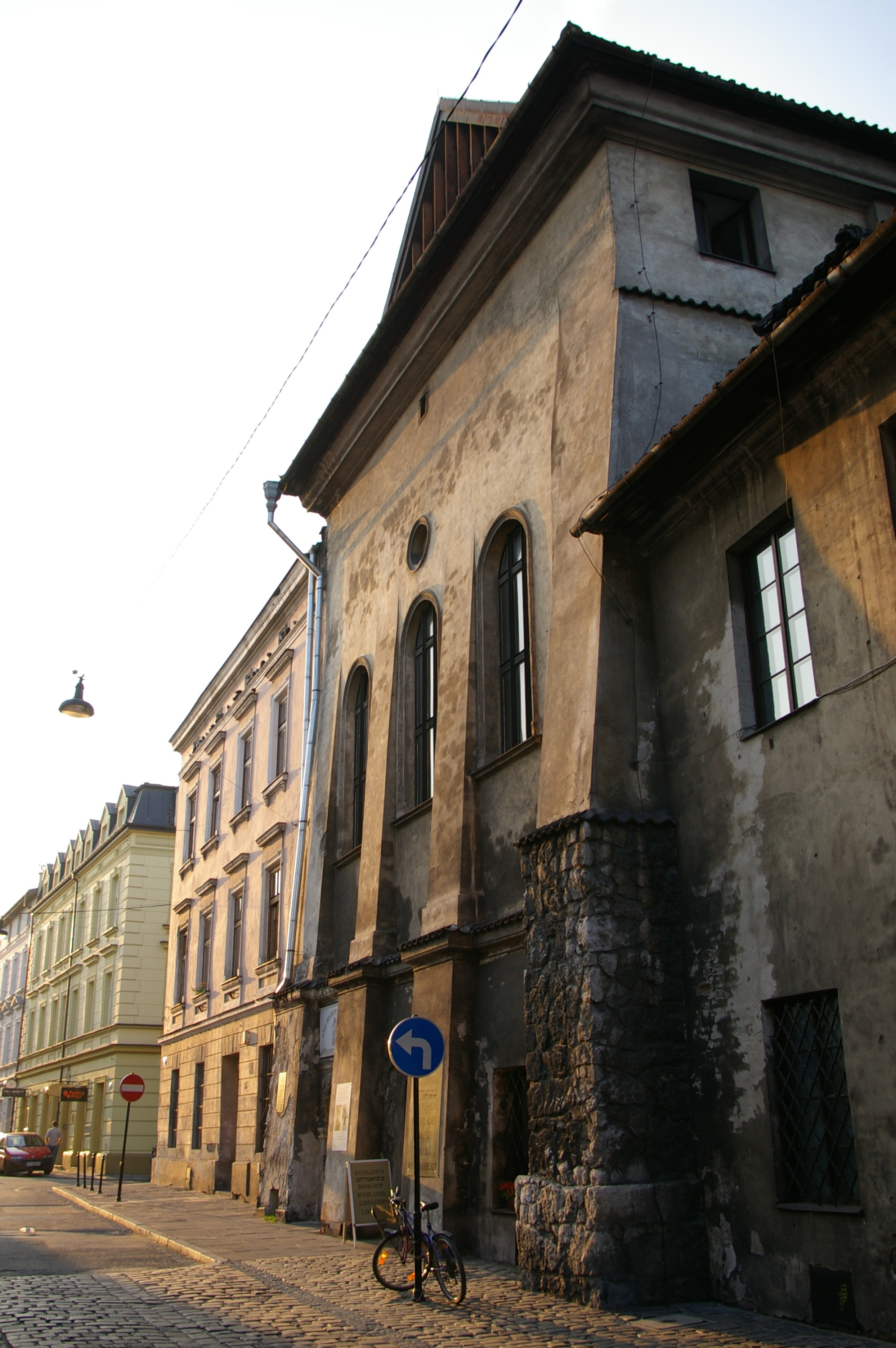 High Synagogue in Kraków